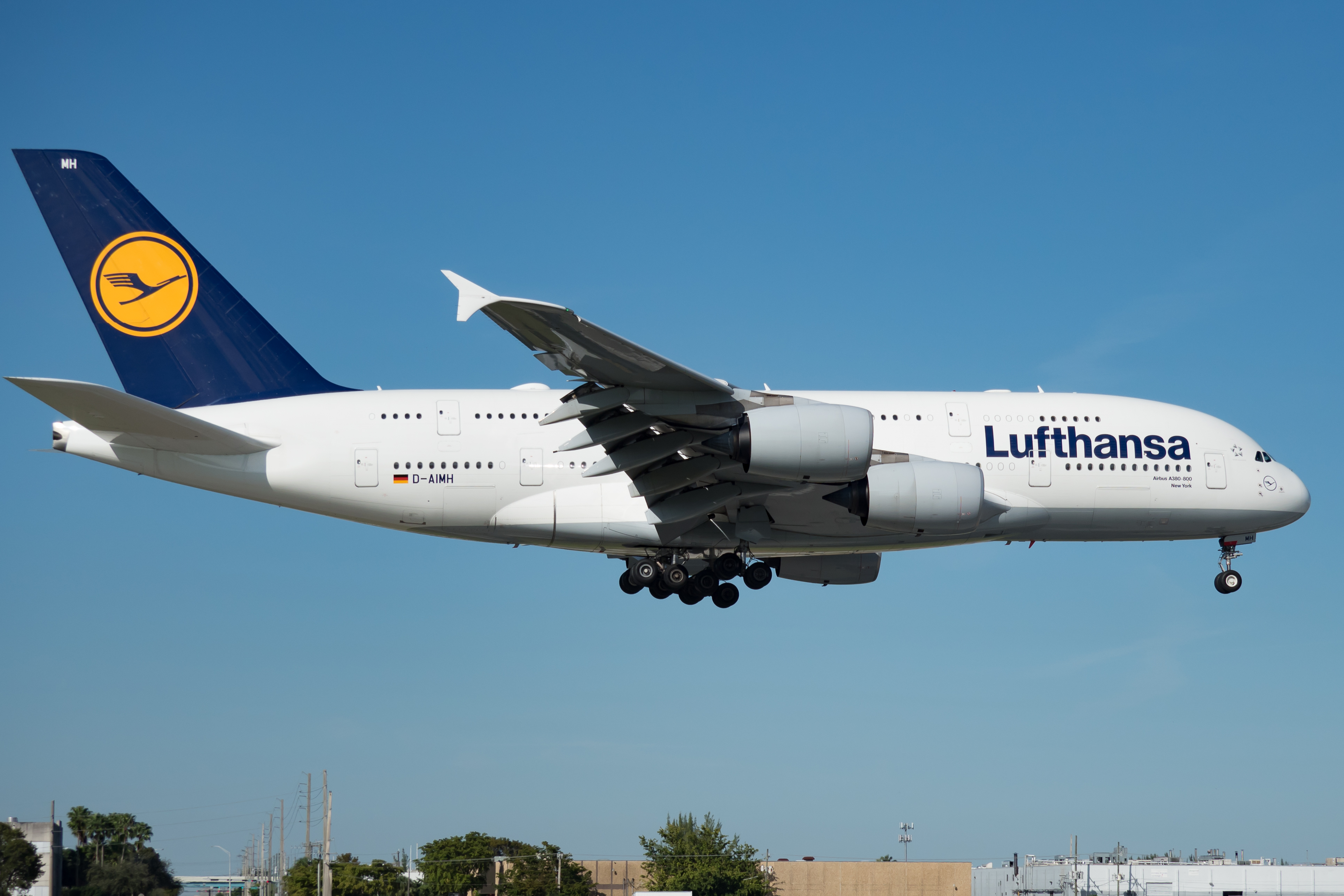 Lufthansa Airbus A380 at Miami International Airport